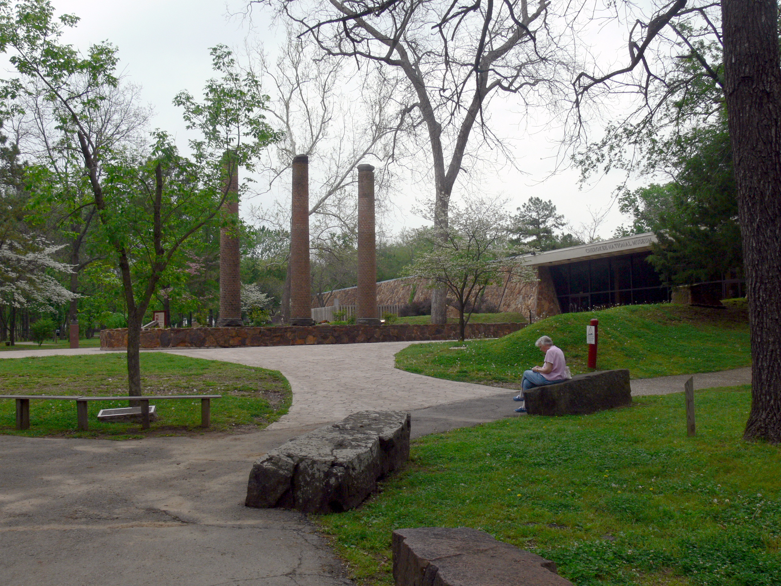 Cherokee Heritage Center ( Tahlequah, Oklahoma ). Square in front of the museum.